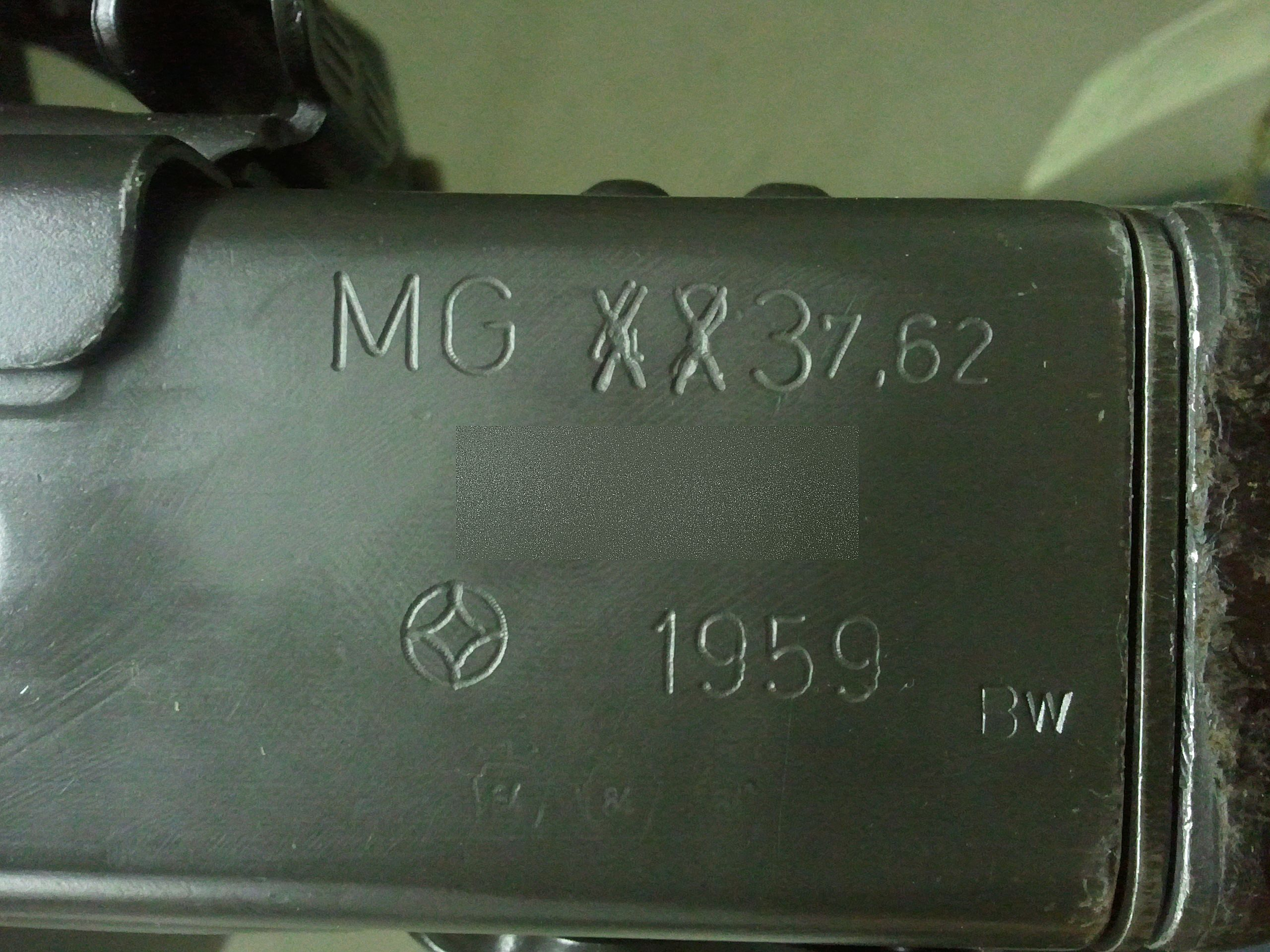 An original MG 42 retrofitted to a MG 3 in 1959.